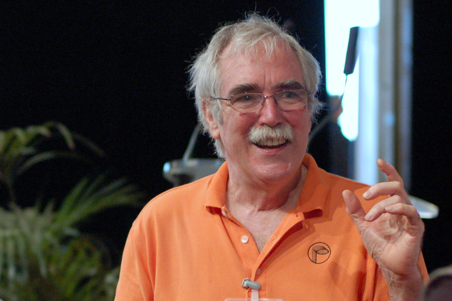 Eric Wieschaus after his talk at the 11th European Conference on Artificial Life (ECAL 2011, Paris)